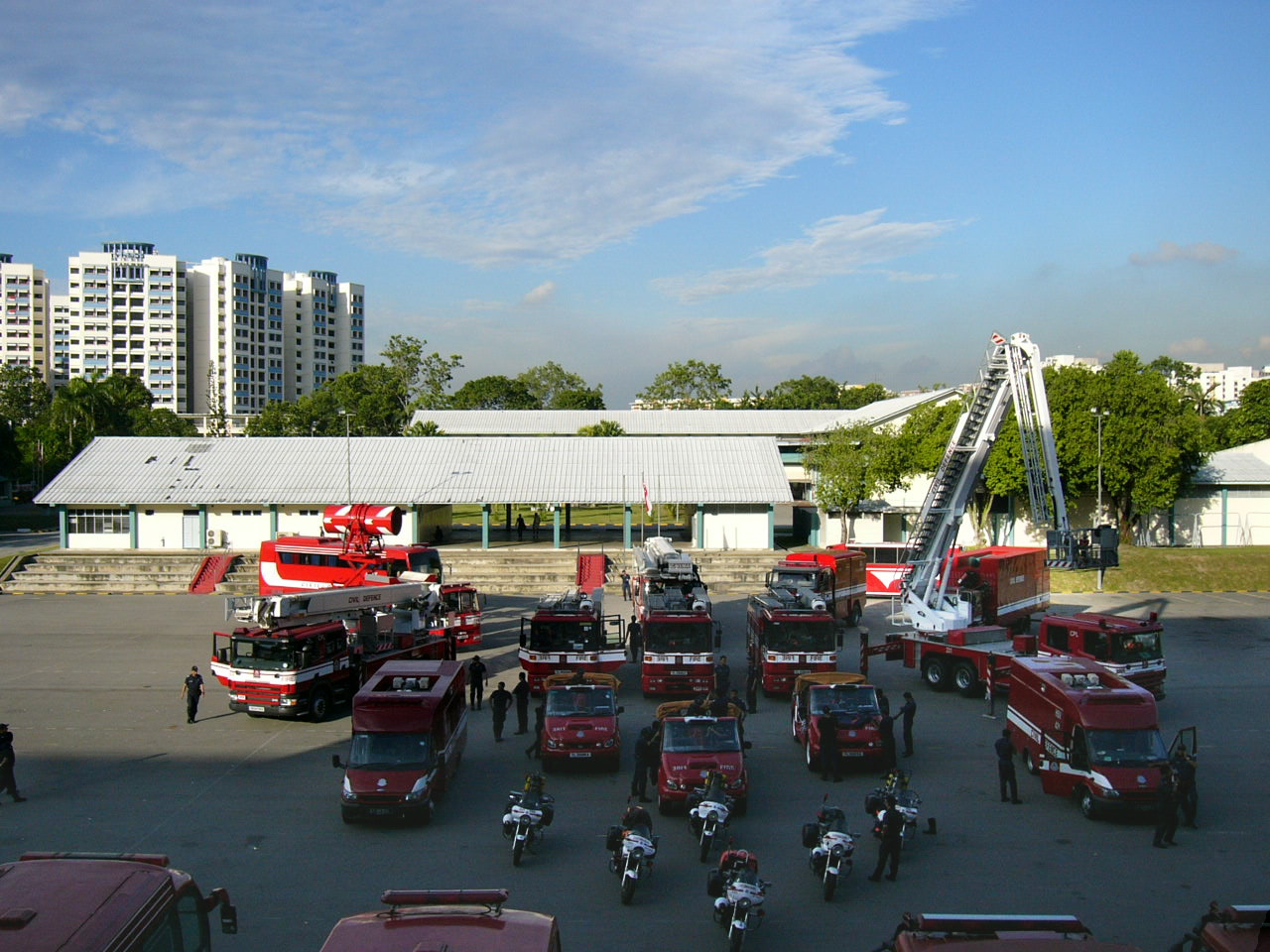 A small display fleet of appliances at the former SCDF BRTC.